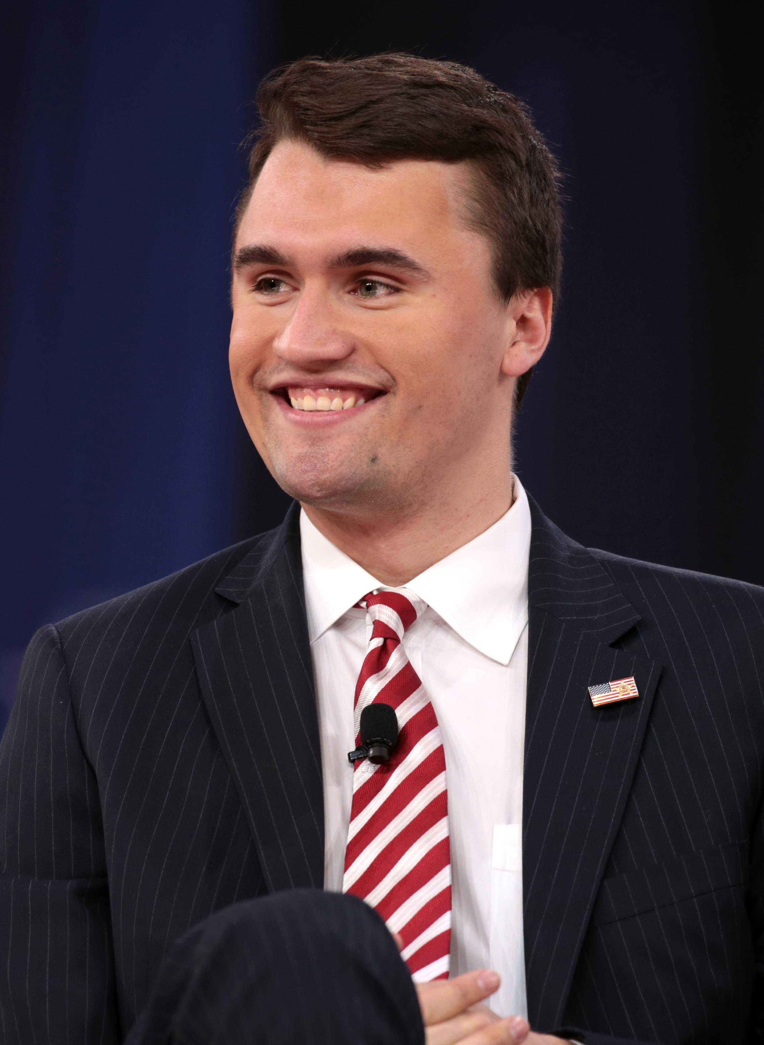 Charlie Kirk speaking at the 2018 CPAC in National Harbor, Maryland.